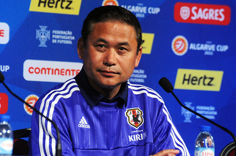 Norio Sasaki at the 2015 Algarve Cup